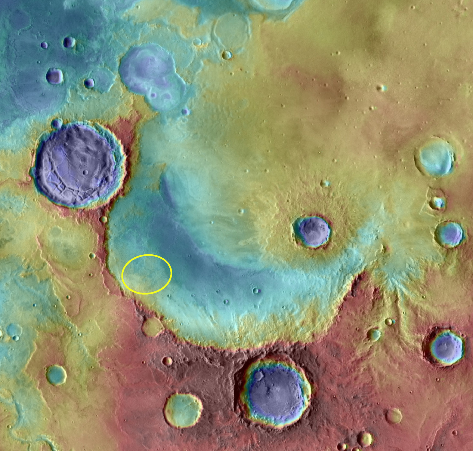 "Miyamoto Crater is just west of the Plains of Meridiani. A huge hole in the ground, the crater is 150 kilometers (93 miles) wide. Rocks formed in the presence of water fill the crater's northeastern half. Like those discovered by the Opportunity rover, they include minerals of iron and sulfur. These materials likely settled on lake bottoms or in groundwater systems. In the southwestern portion of the crater floor, erosion has stripped them away. The eroded surfaces are windows into the very remote past. They reveal clays and other materials like those found in the most ancient Martian rocks. More than 3.5 billion years old, they date to the Noachian era. At that time, liquid water was likely present at the surface. Perhaps the water created an environment favorable to life."